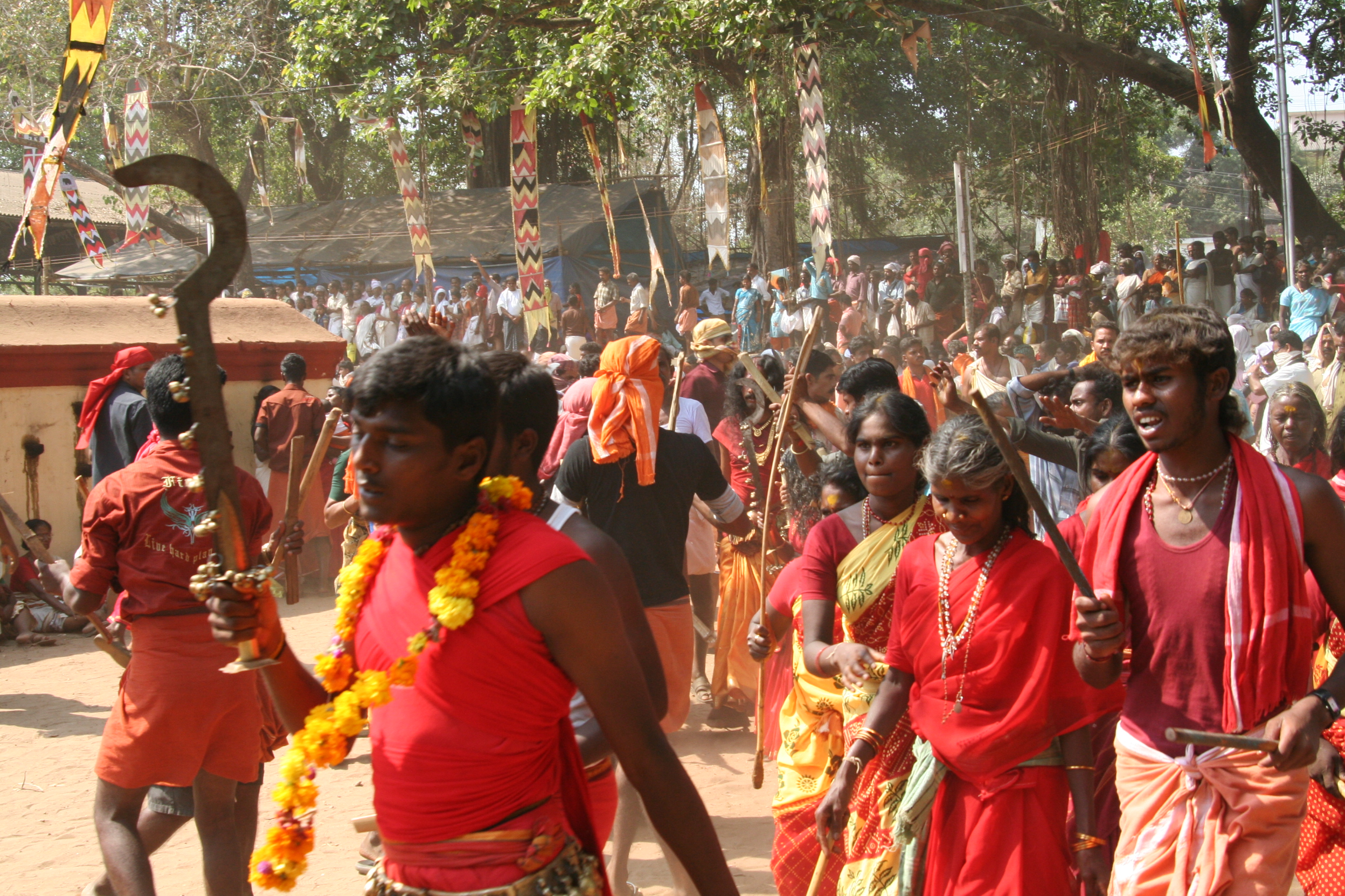 Kodungallur Bharani kavu theendal.